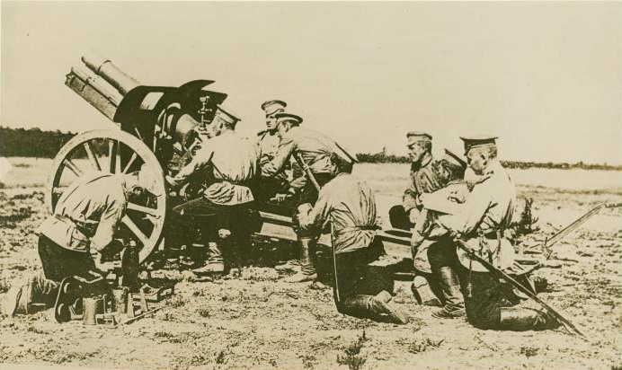 Russian 122mm howitzer.